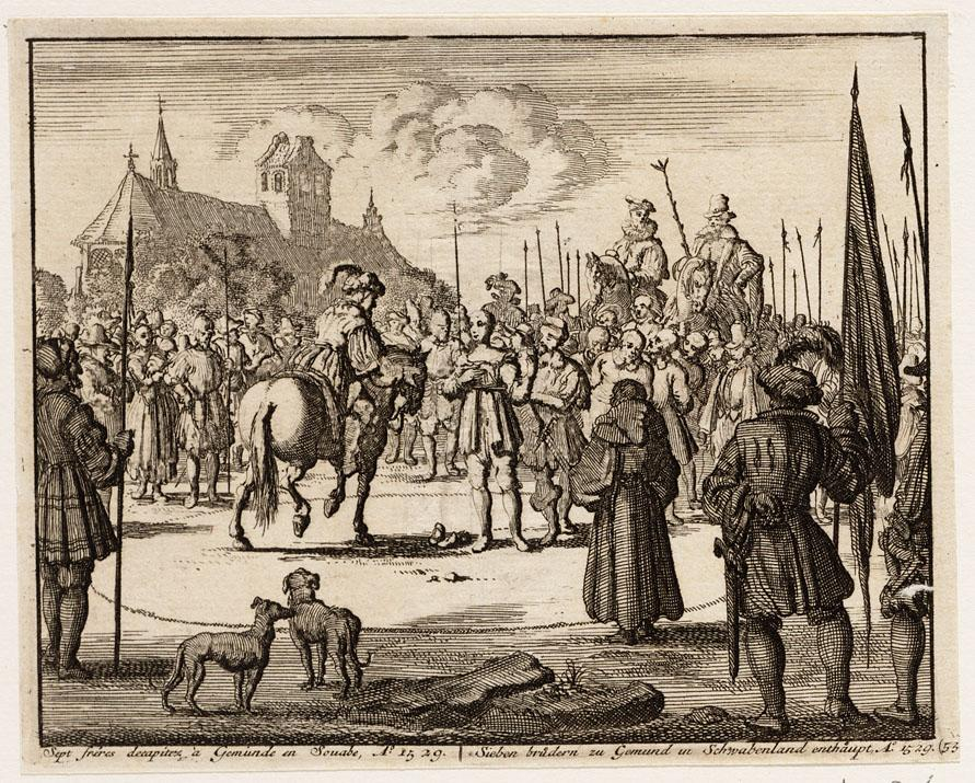 Jan Luiken (1649-1712) etching in the Martyrs Mirror (scanned directly out of a copy of the 1685 edition): Book 2, page 25: Beheading of 7 brothers, Schwäbisch-Gmund, 1529 (Eeghen 707)